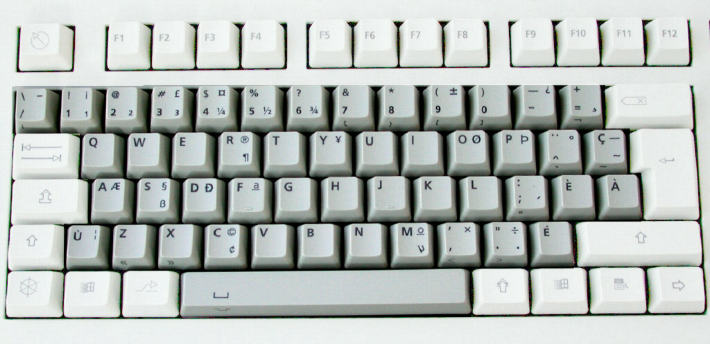 French Canadian ACNOR keyboard.